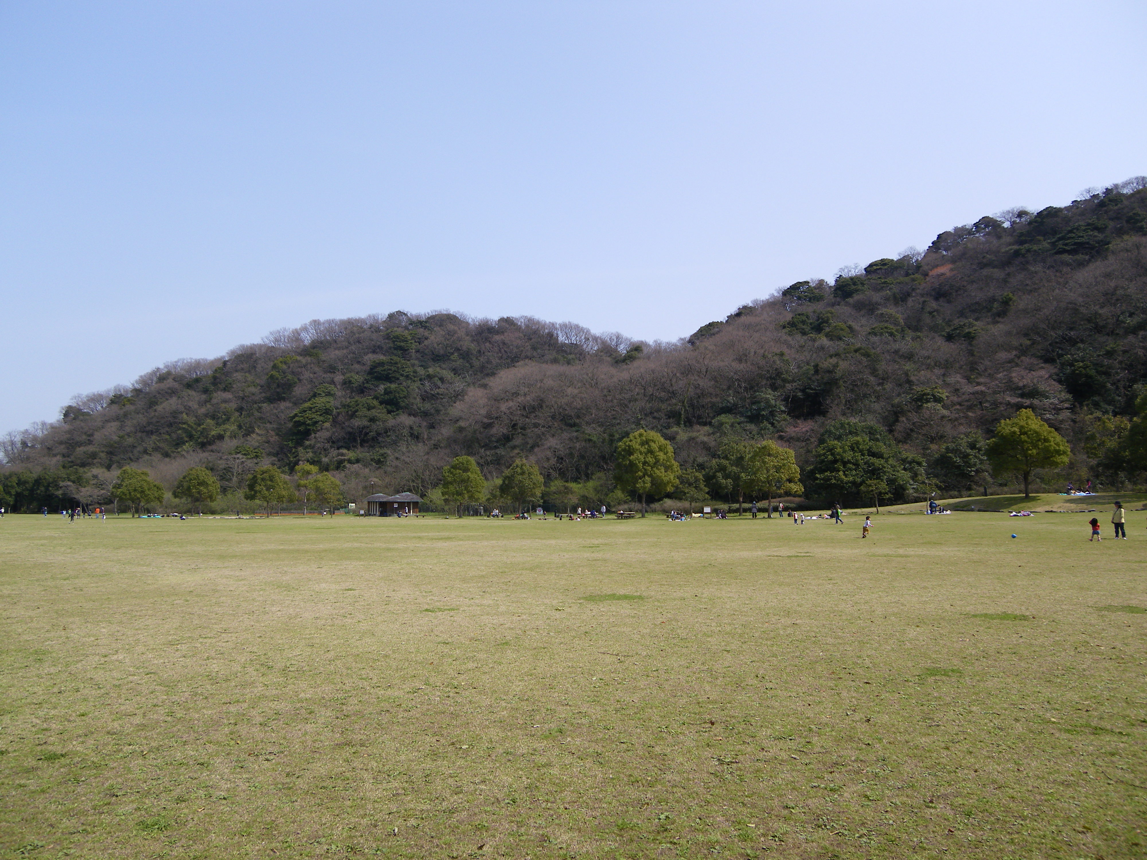 Yamada Green Zone